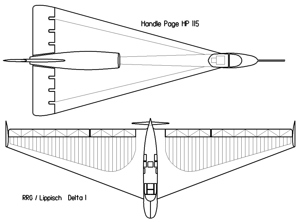 High and low aspect ratio delta wings